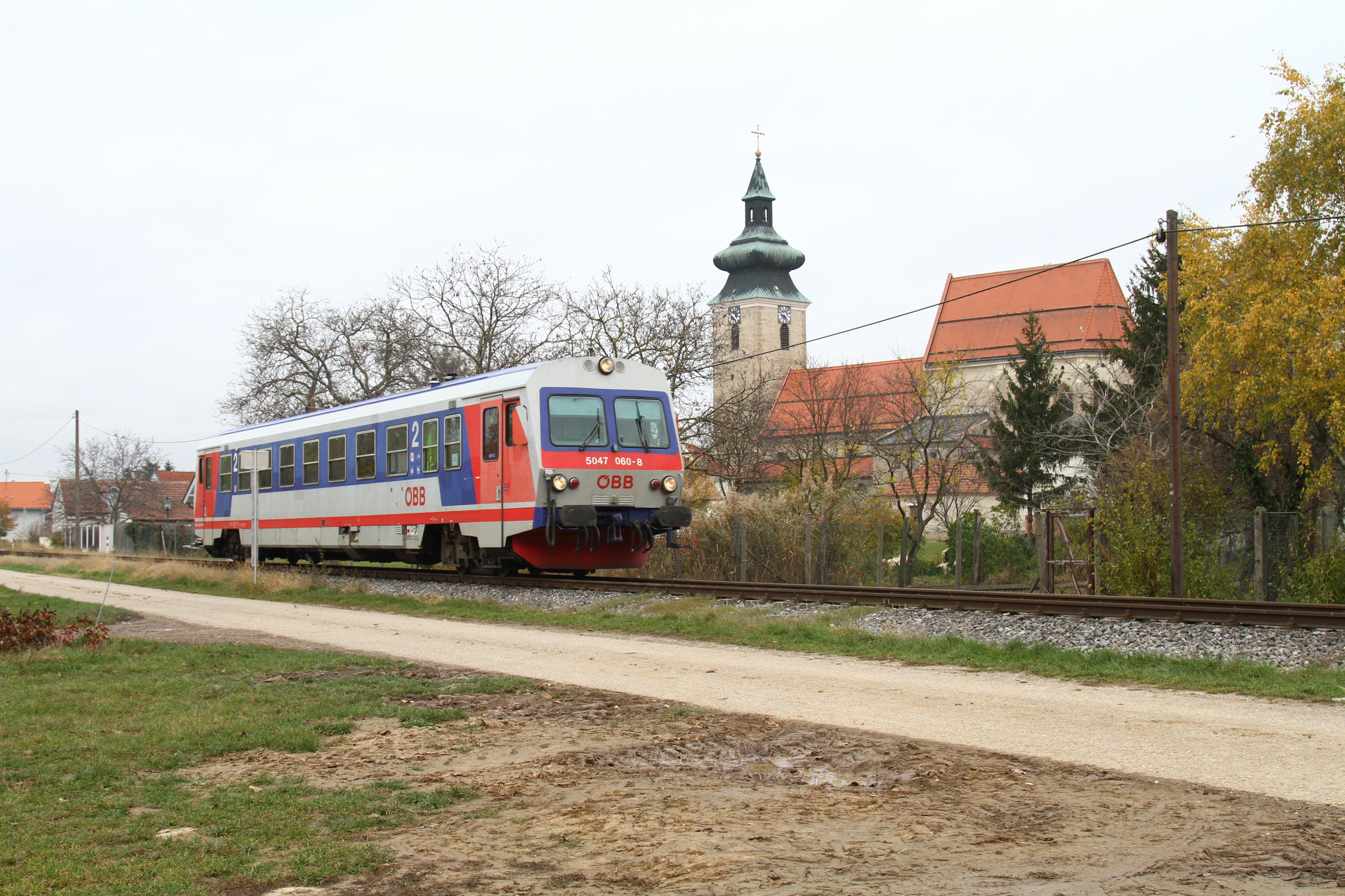 DMU ÖBB 5047 060 passing the church of Pillichsdorf